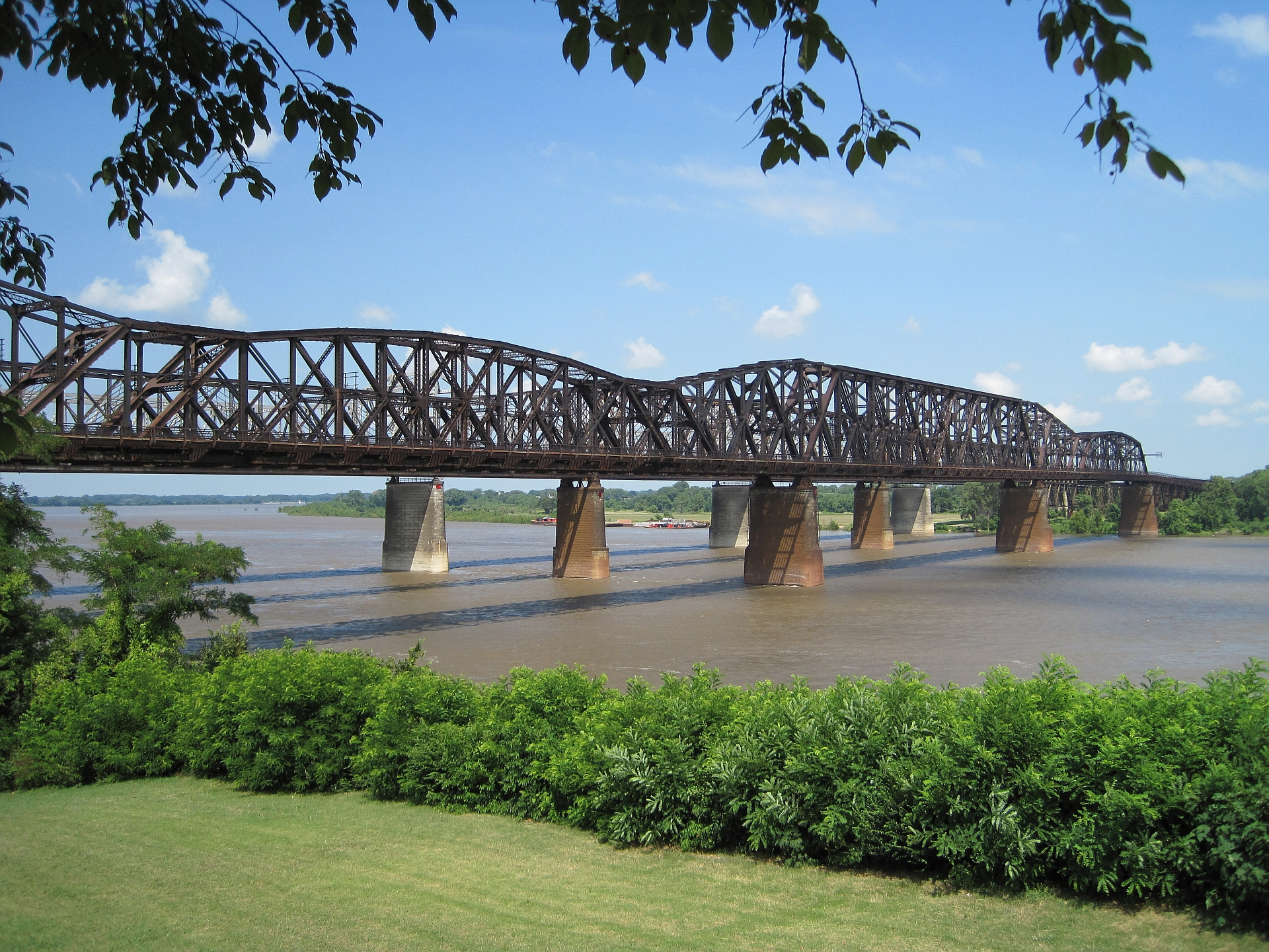 Harahan Bridge (Memphis, Tennessee). View from Martyrs Park